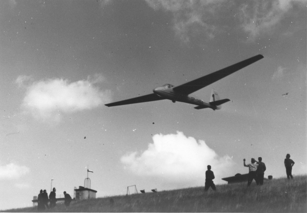 Glider SZD 12 Mucha After bungee start from Mountain Żar